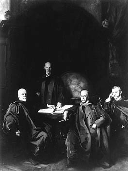 The Four Doctors by John Singer Sargent